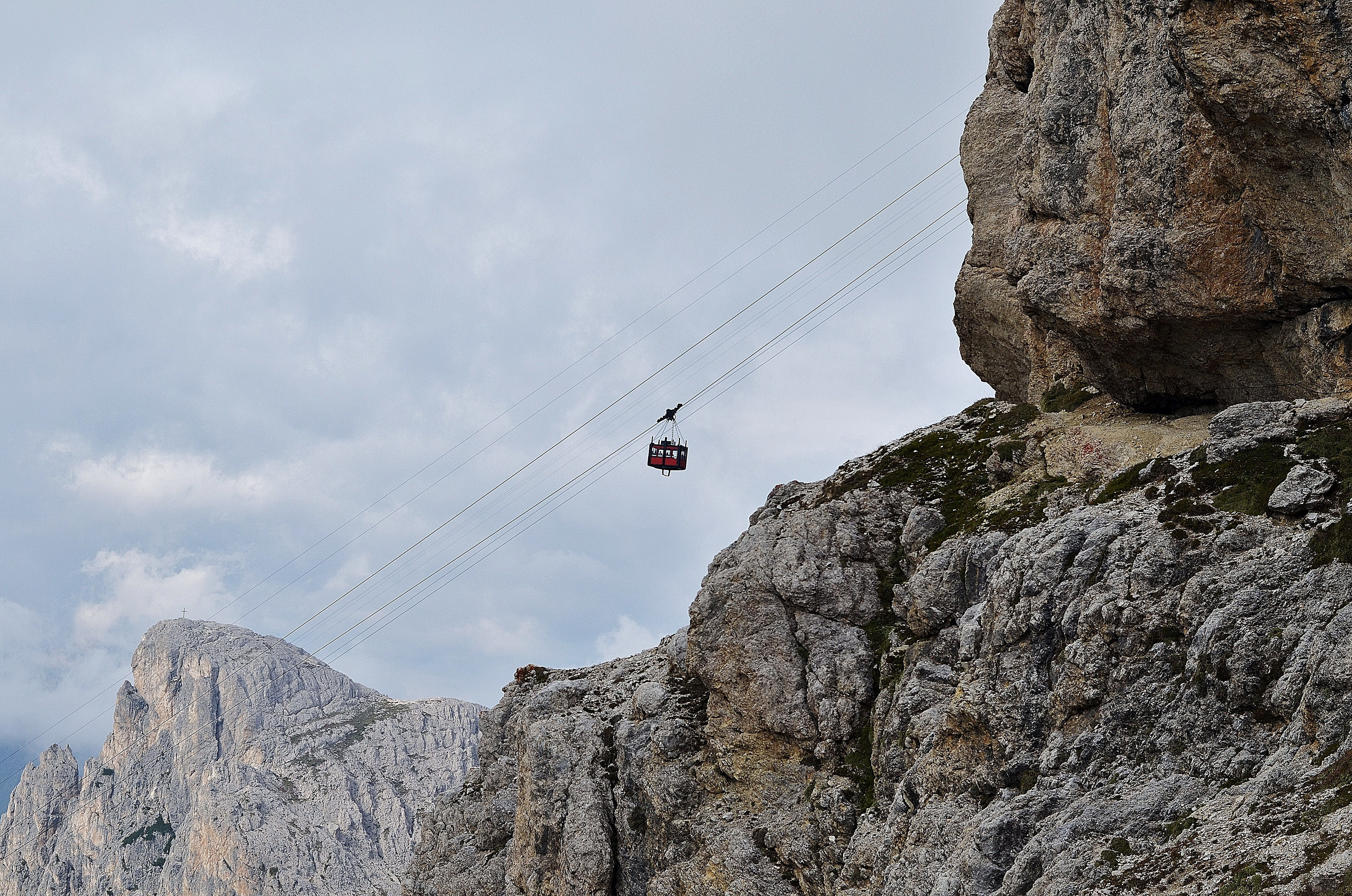 Cable car at Lagazuoi pass (Italy)